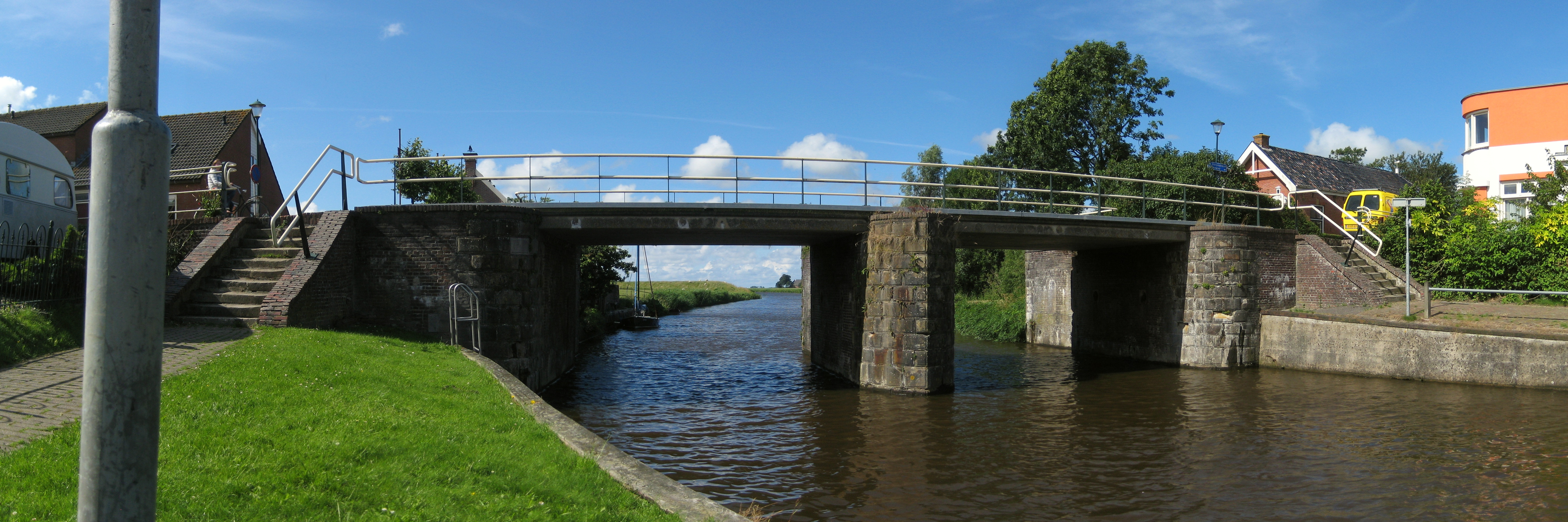 The bridge and former locks of Kommerzijl, a village in the in the Dutch province of Groningen.